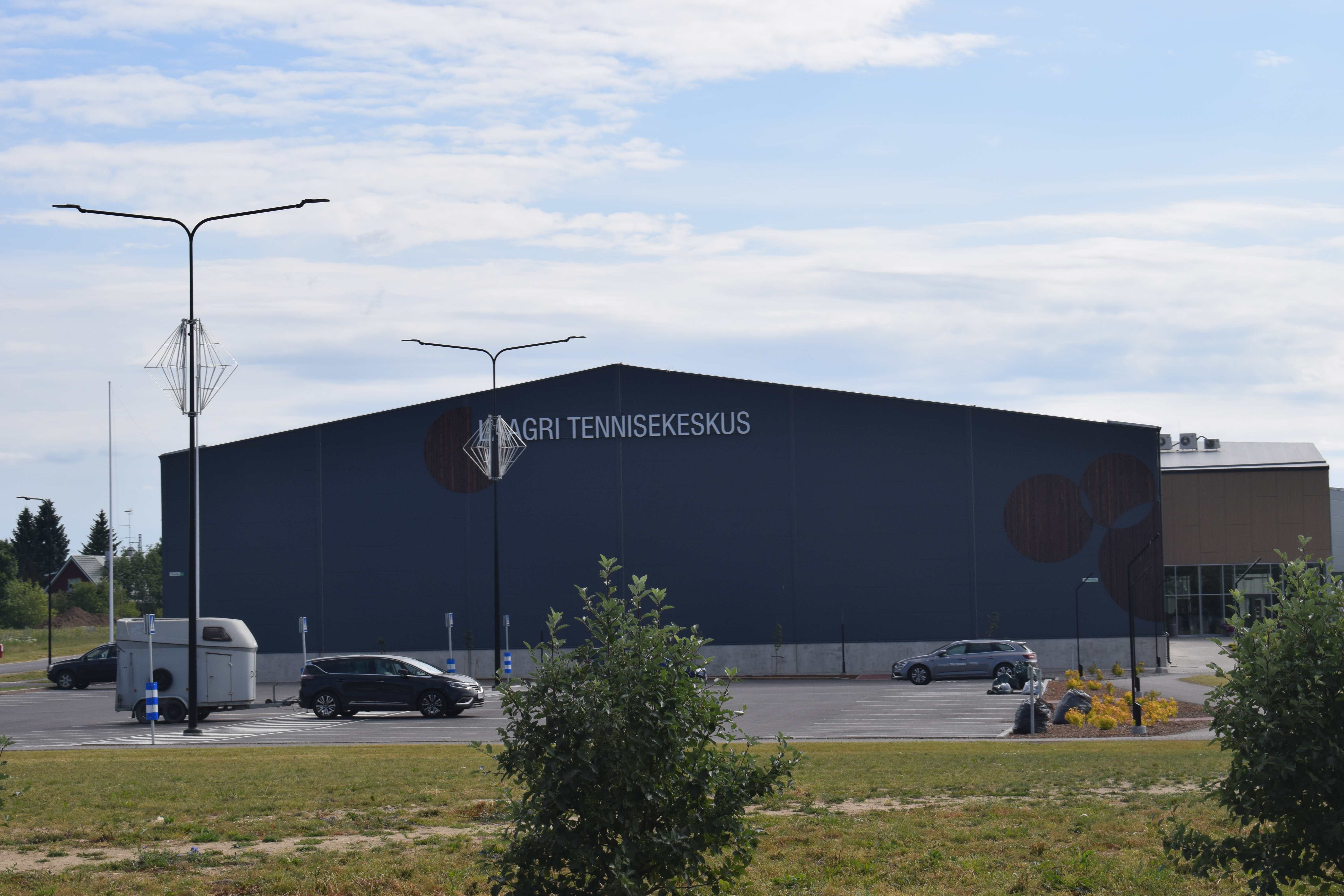 Laagri tennisekeskus